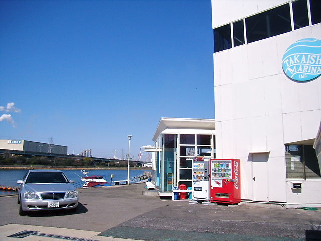 Takaishi Marina Building